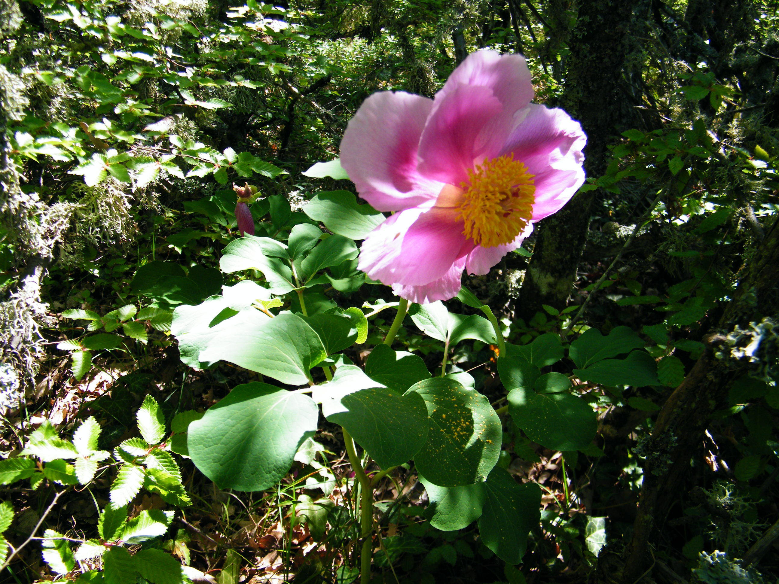 Paeonia daurica in Laspi Bay